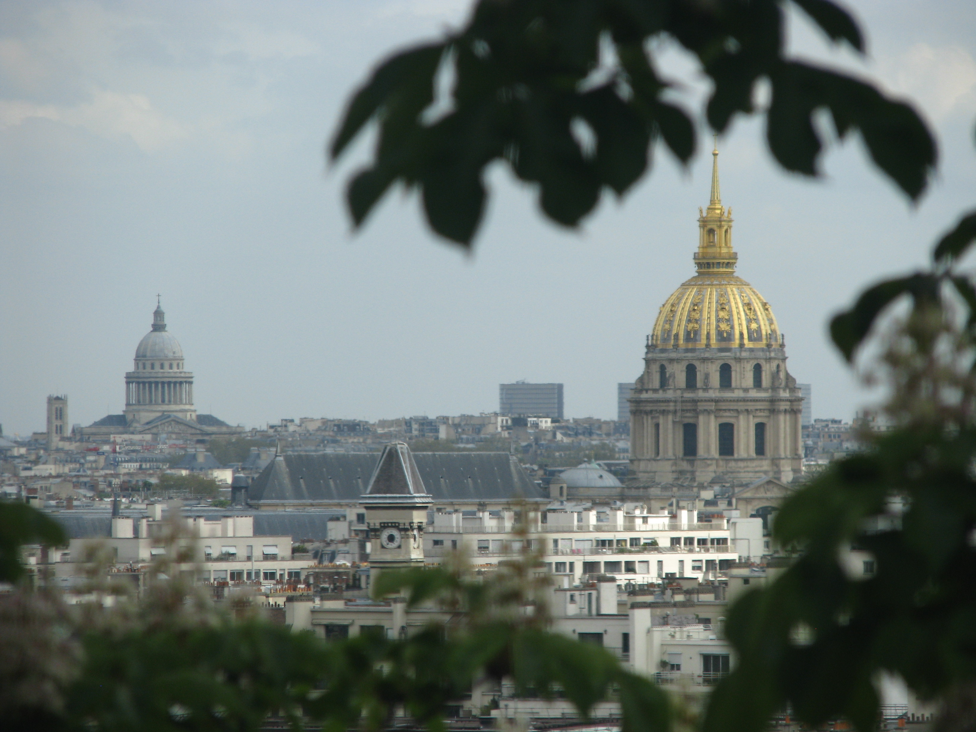 Domes of Chapel Saint-Louis des Invalides (foreground) and the Panthéon in Paris.